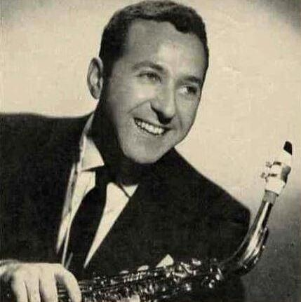 In addition to the above applicable tag, I spoke with the appropriate office/individual at Conn-Selmer, who bought Leblanc, who owned the rights to Martin Band Instruments. They assured me that the picture, from a 1957 Martin Band Instruments print ad (an original of which I own), was in the public domain, and, in any case, gave me permission to use the picture as I chose.